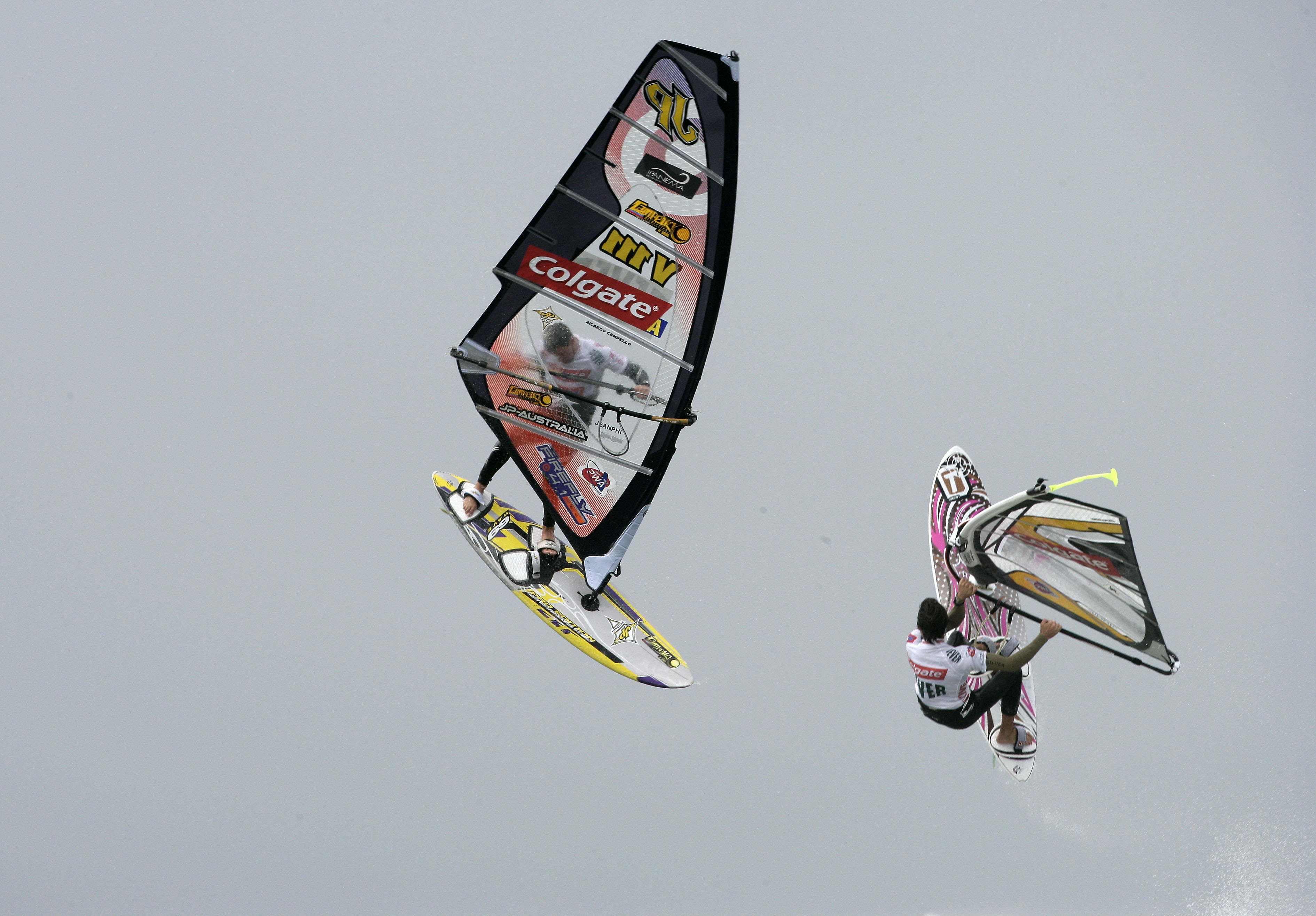 Windsurf World Cup Sylt 2009